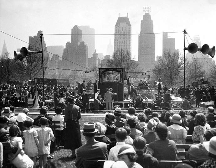 Photograph of a marionette theatre presentation by the Federal Theatre Project in Central Park, New York